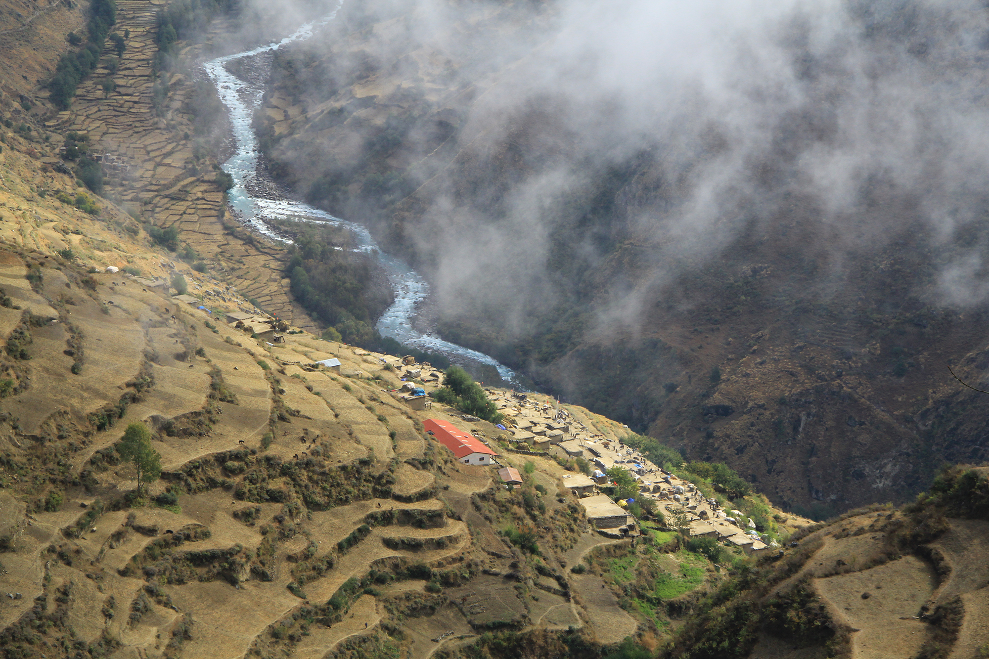 Main River